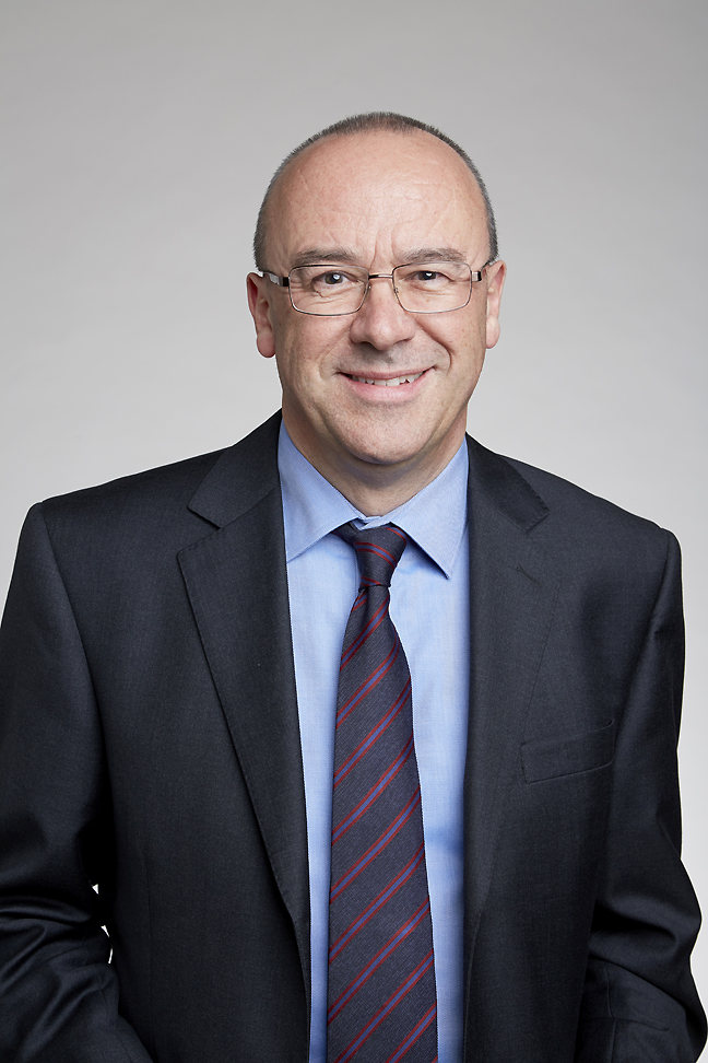 Christopher Michael Bishop (born 7 April 1959) is the Laboratory Director at Microsoft Research Cambridge, Professor of Computer Science at the University of Edinburgh and a Fellow of Darwin College, Cambridge. Attribution: The Royal Society